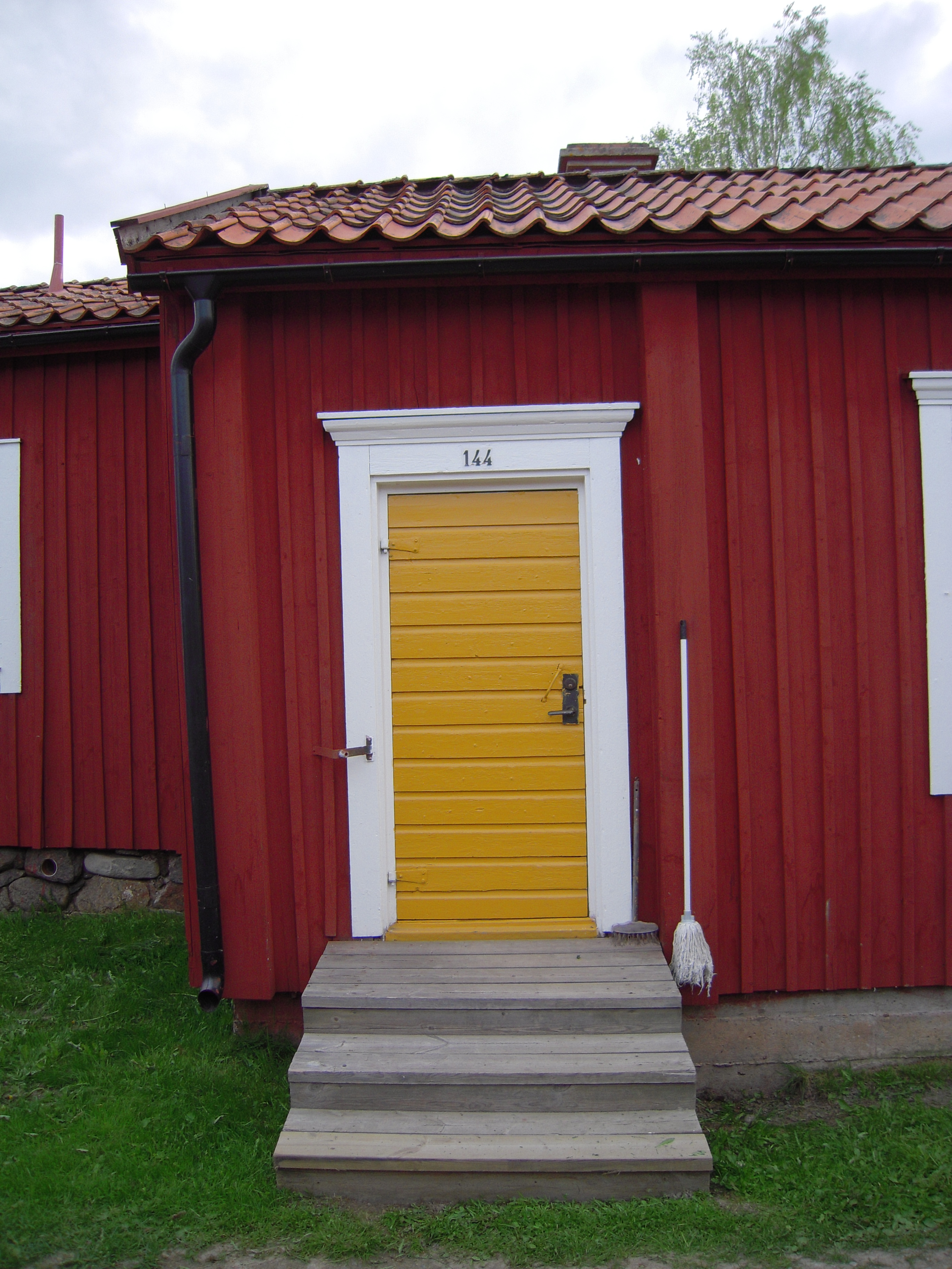 The door to one of the buildings in the church town.